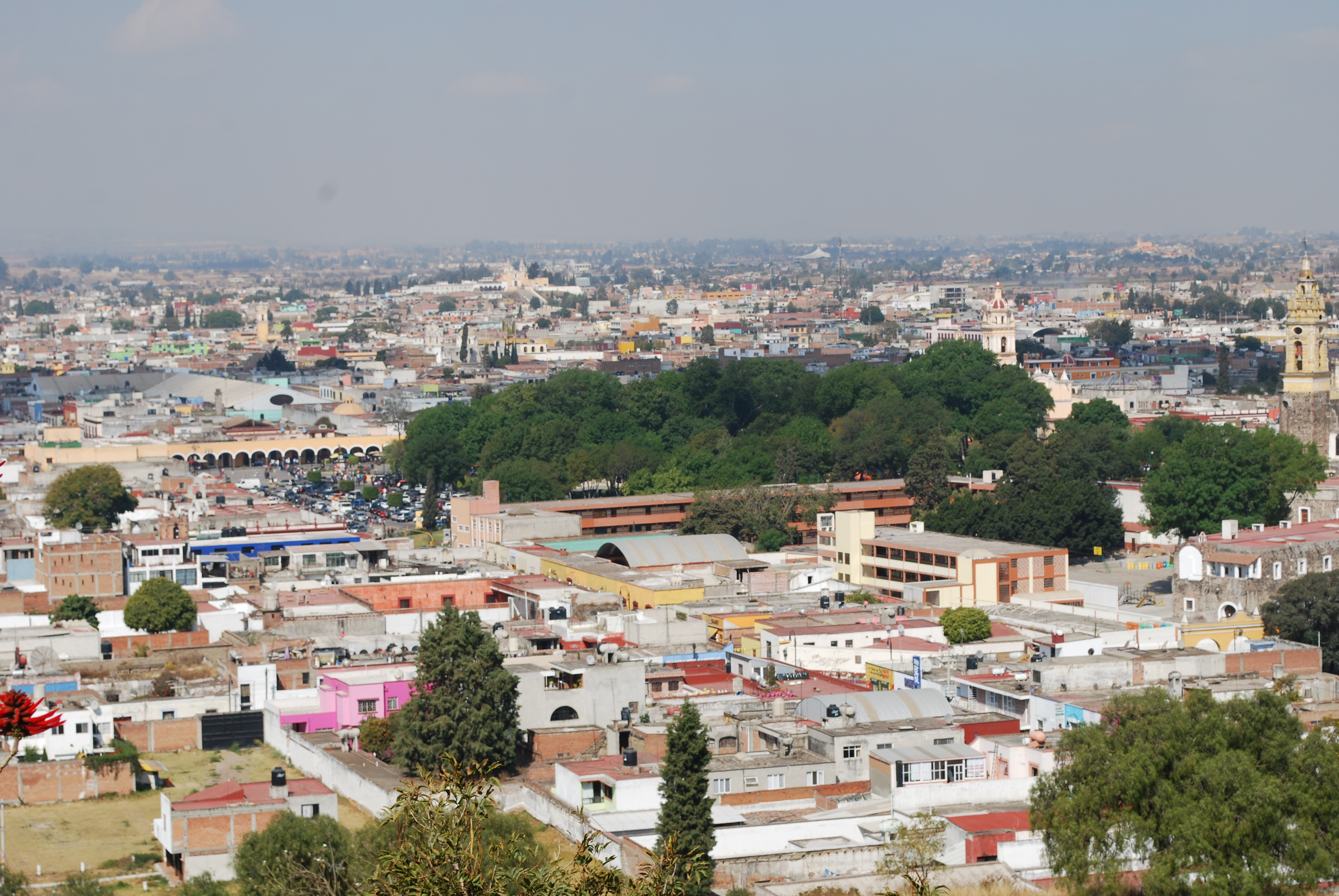 Overview of the main plaza of Cholula, Puebla, Mexico